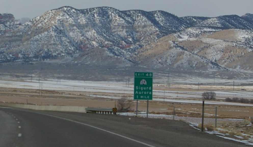 Road sign in Utah to illustrate the concept of a unsigned highway, while the exit is marked as an interchange with Utah State Route 24 the actual road at the interchange is Utah State Route 259